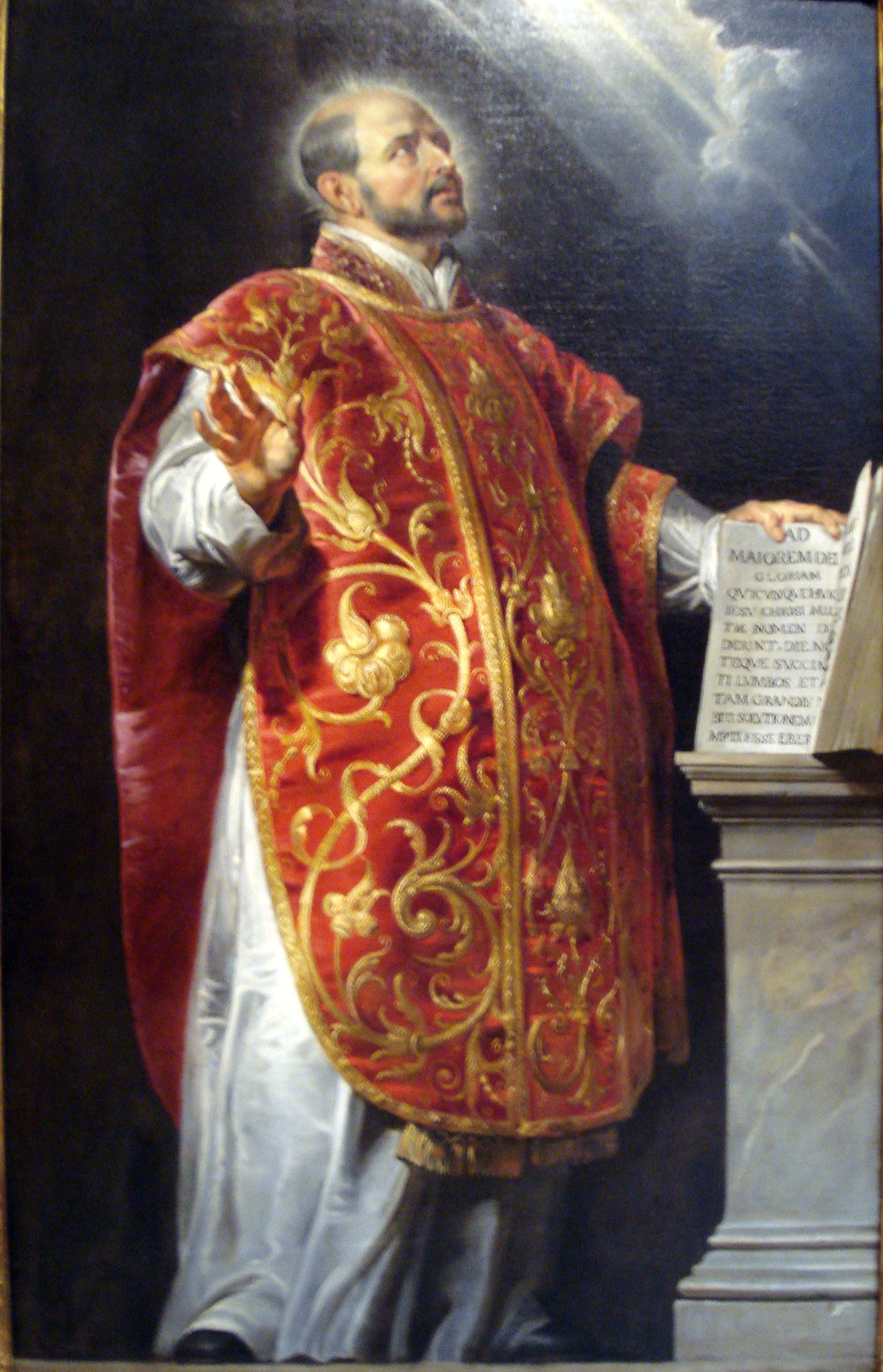 Saint Ignatius of Loyola